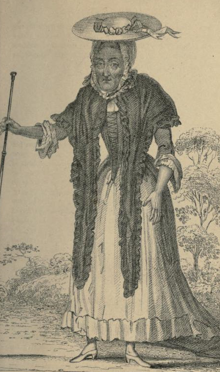 Jane Lewson sketch